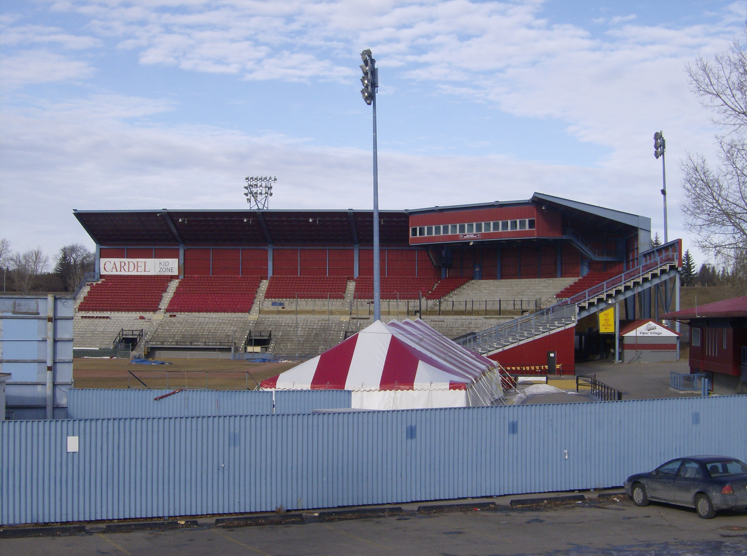 Foothills Stadium, in Calgary, Alberta, Canada